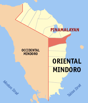 Map of Oriental Mindoro showing the location of Pinamalayan